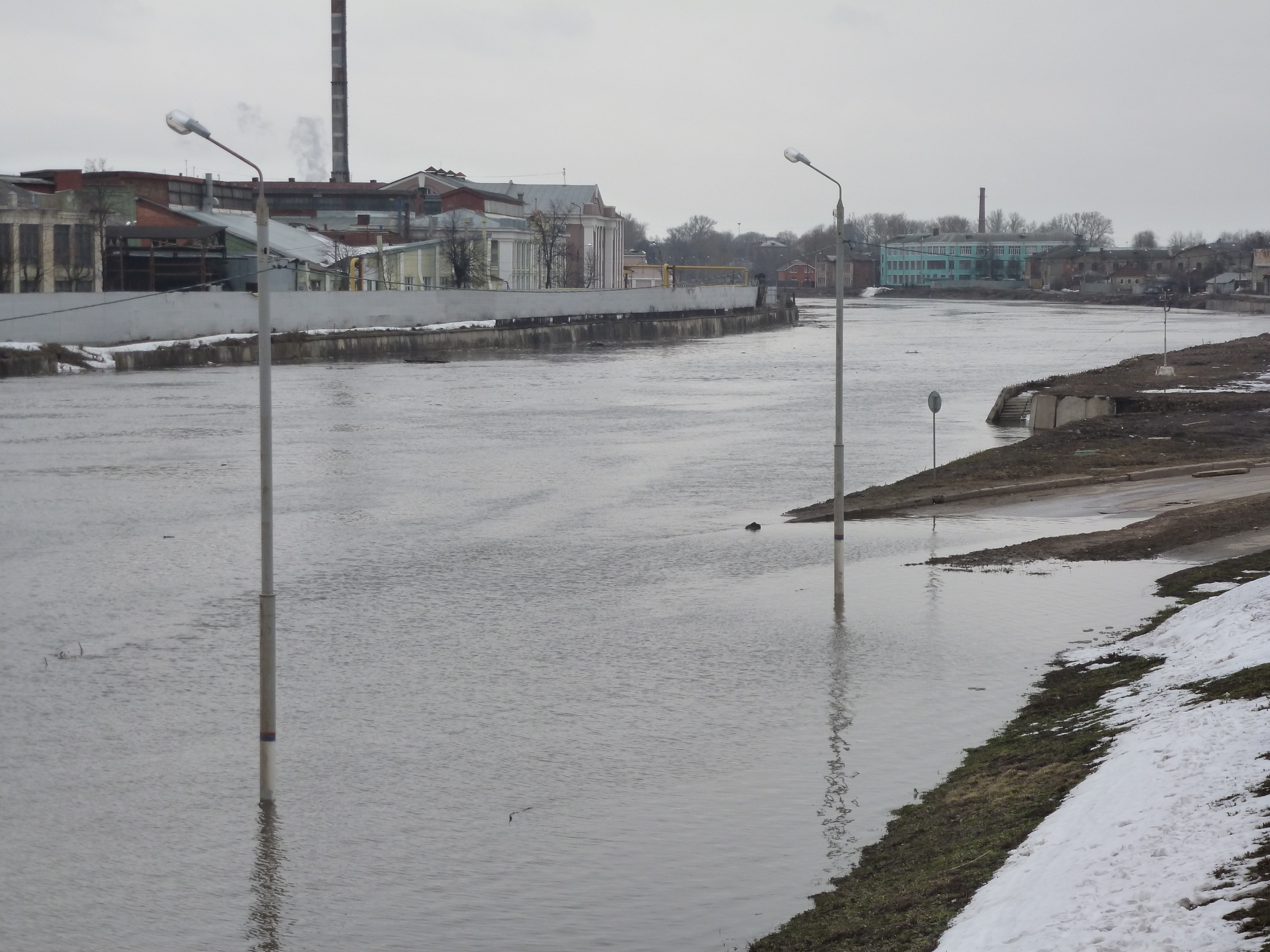 High water - Upa